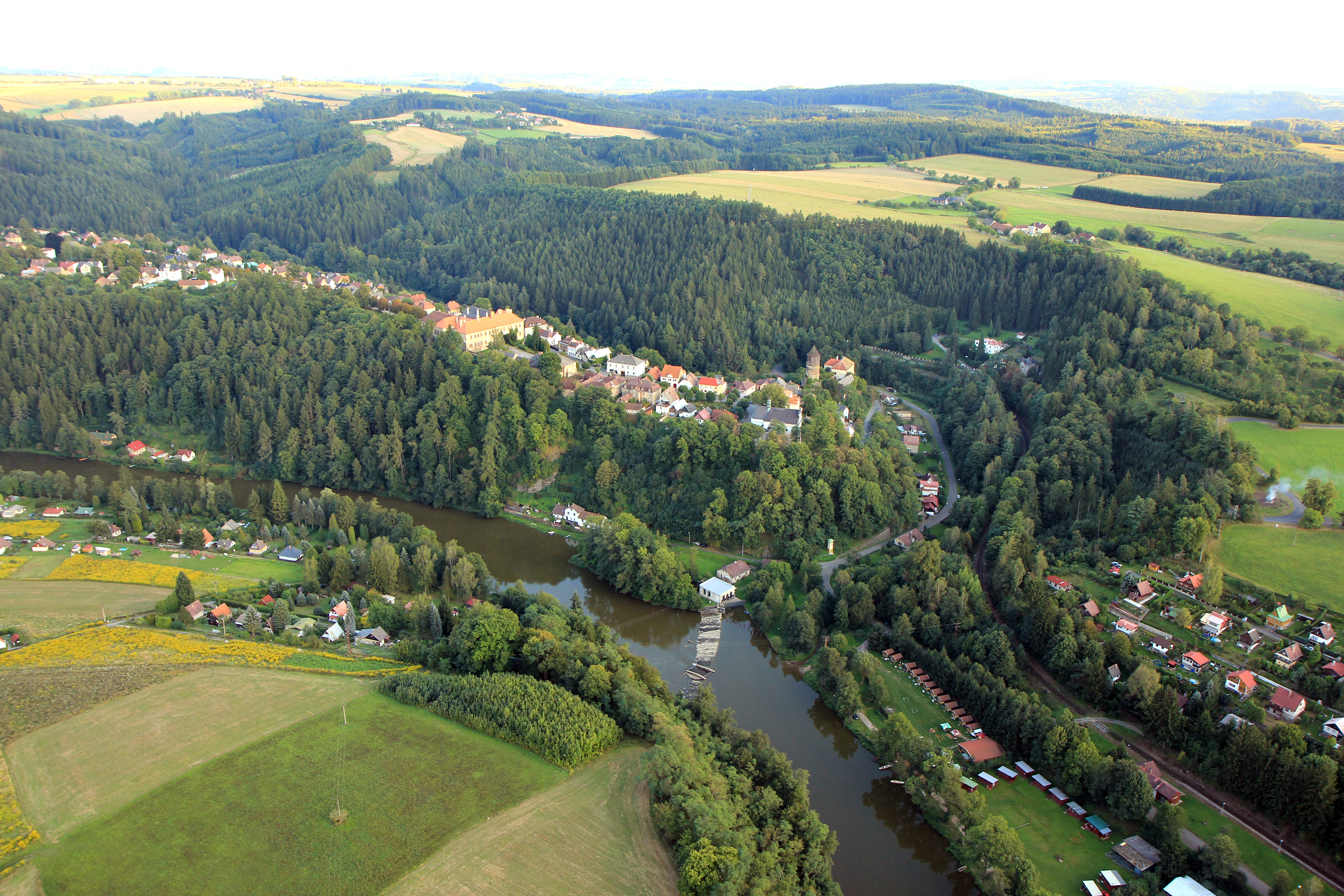 Aerial view of Rataje nad Sázavou with Sázava river, Czech Republic